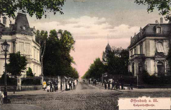 Postcard used in 1907 (probably older) showing the Tulpenhofstr. in Offenbach from Frankfurter Str.